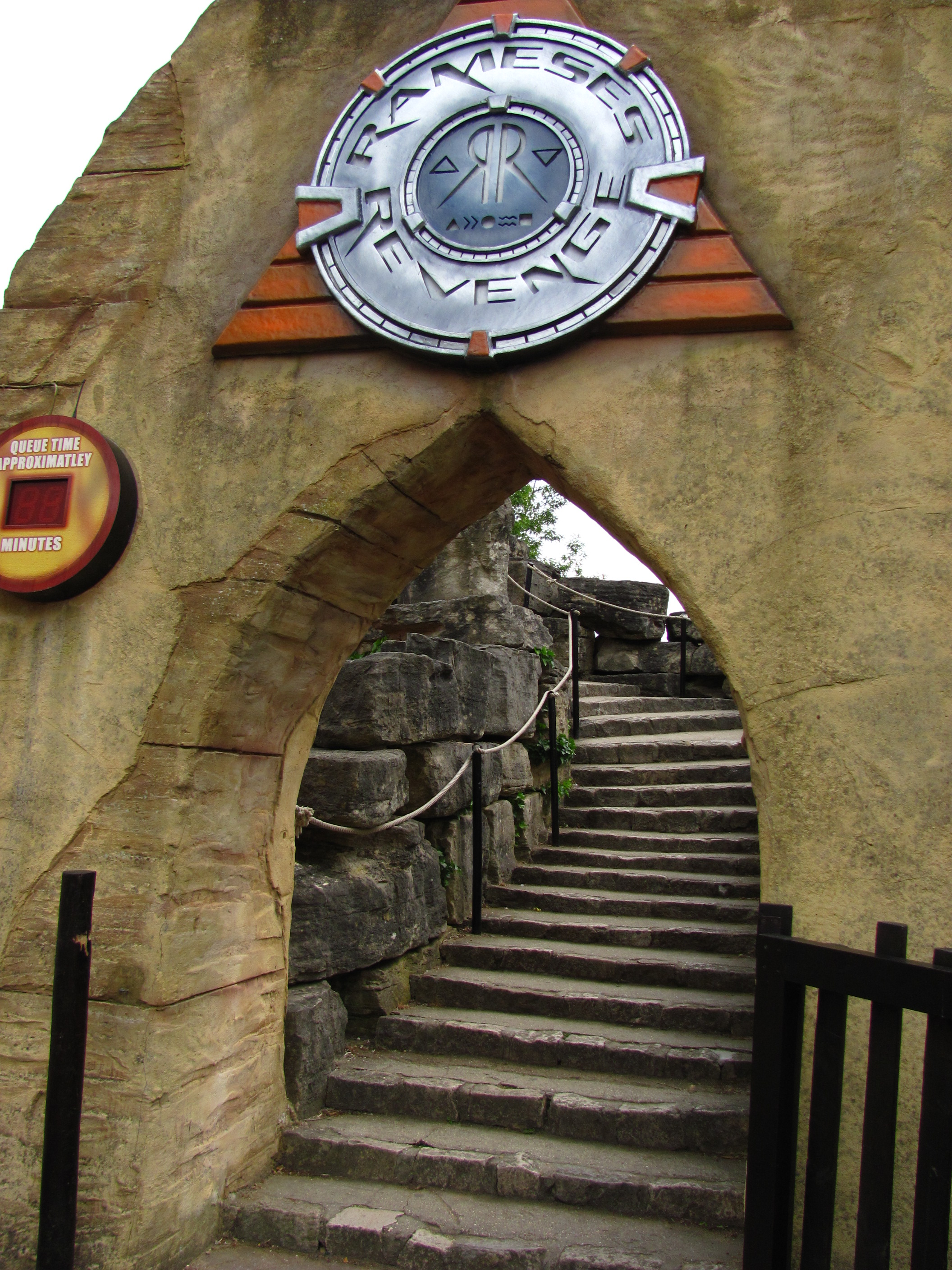 Chessington World of Adventures RamsesRevenge